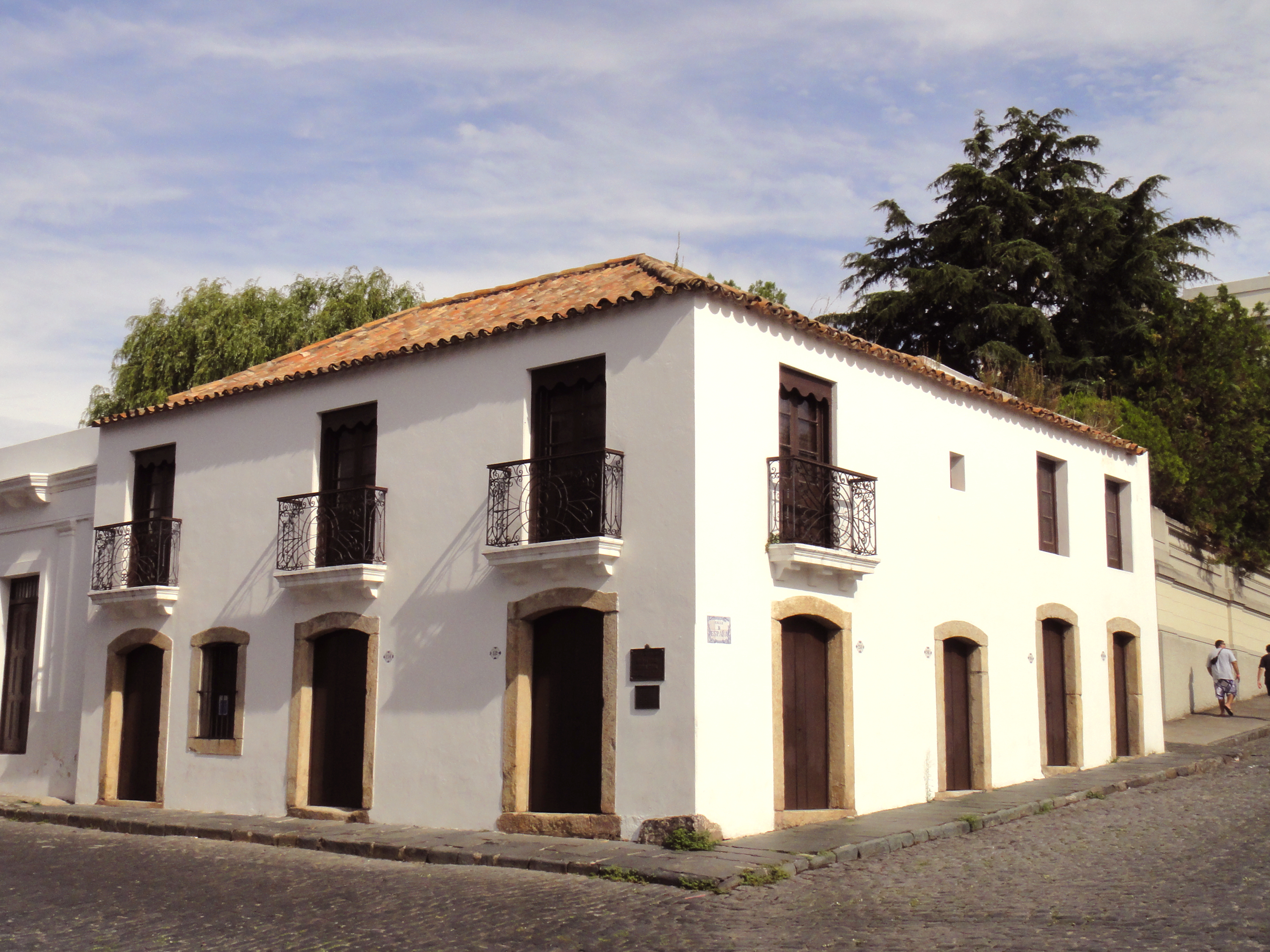 Spanish Museum in Colonia del Sacramento